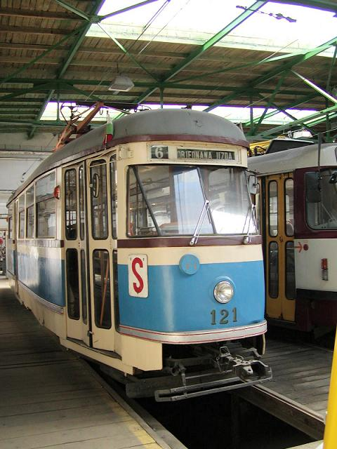 Historical T1 #121 tram in Plzen Author: Maciej Dembiniok 2004